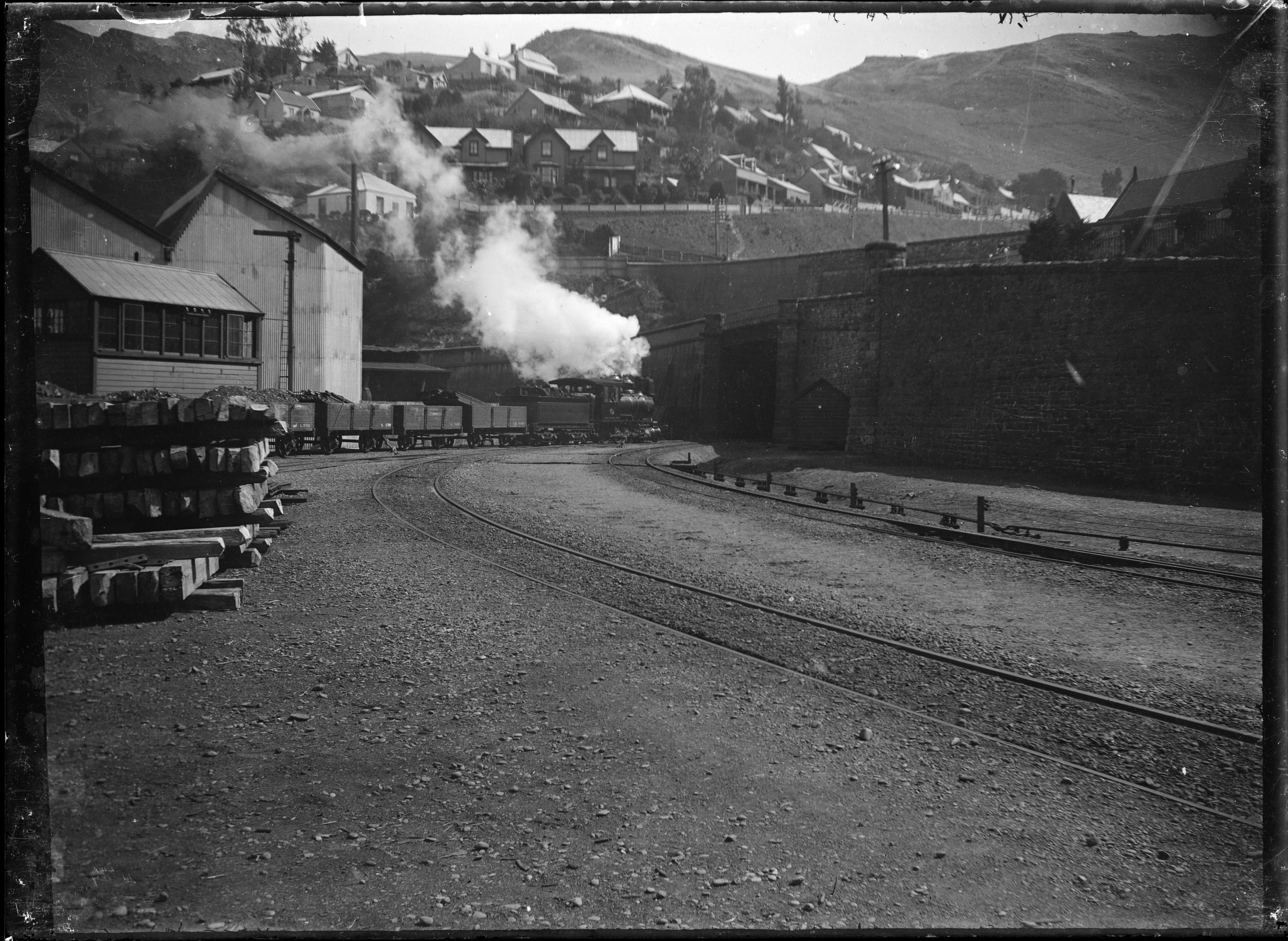 Goods train with class T locomotive, leaving Lyttelton. Photographed by A P Godber, ca 1904. The class T locomotives were built by Baldwin, and went into service in 1880.